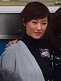 Annie Liu